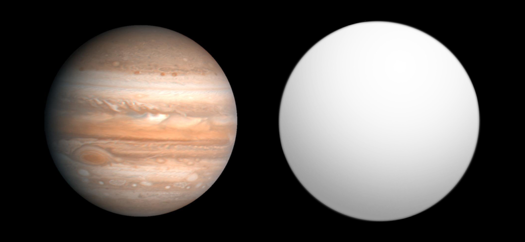 Comparison of best-fit size of the exoplanet WASP-11b/HAT-P-10b with the Solar System planet Jupiter, as reported in the Open Exoplanet Catalogue[1] as of 2010-09-30. ↑ Open Exoplanet Catalogue (2010-09-30). Retrieved on 2010-09-30.